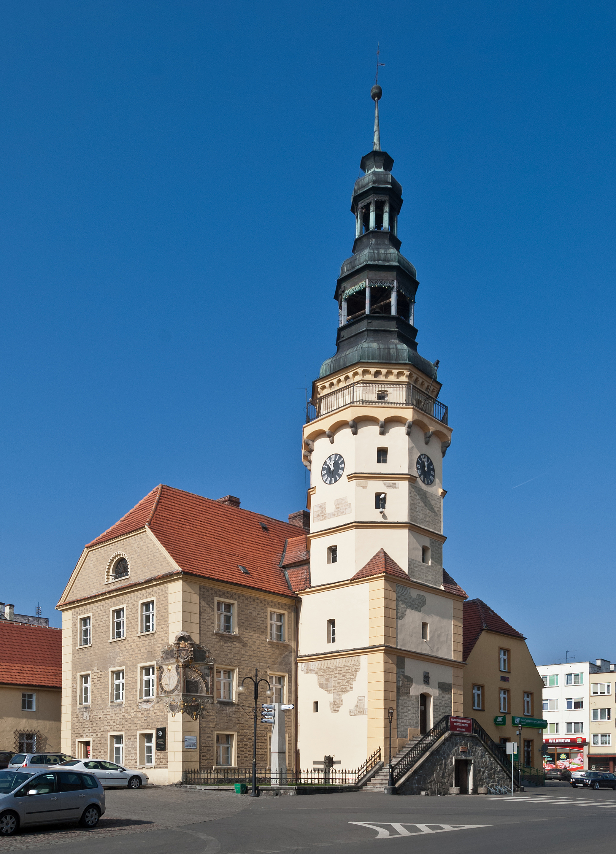 Town hall in Otmuchów